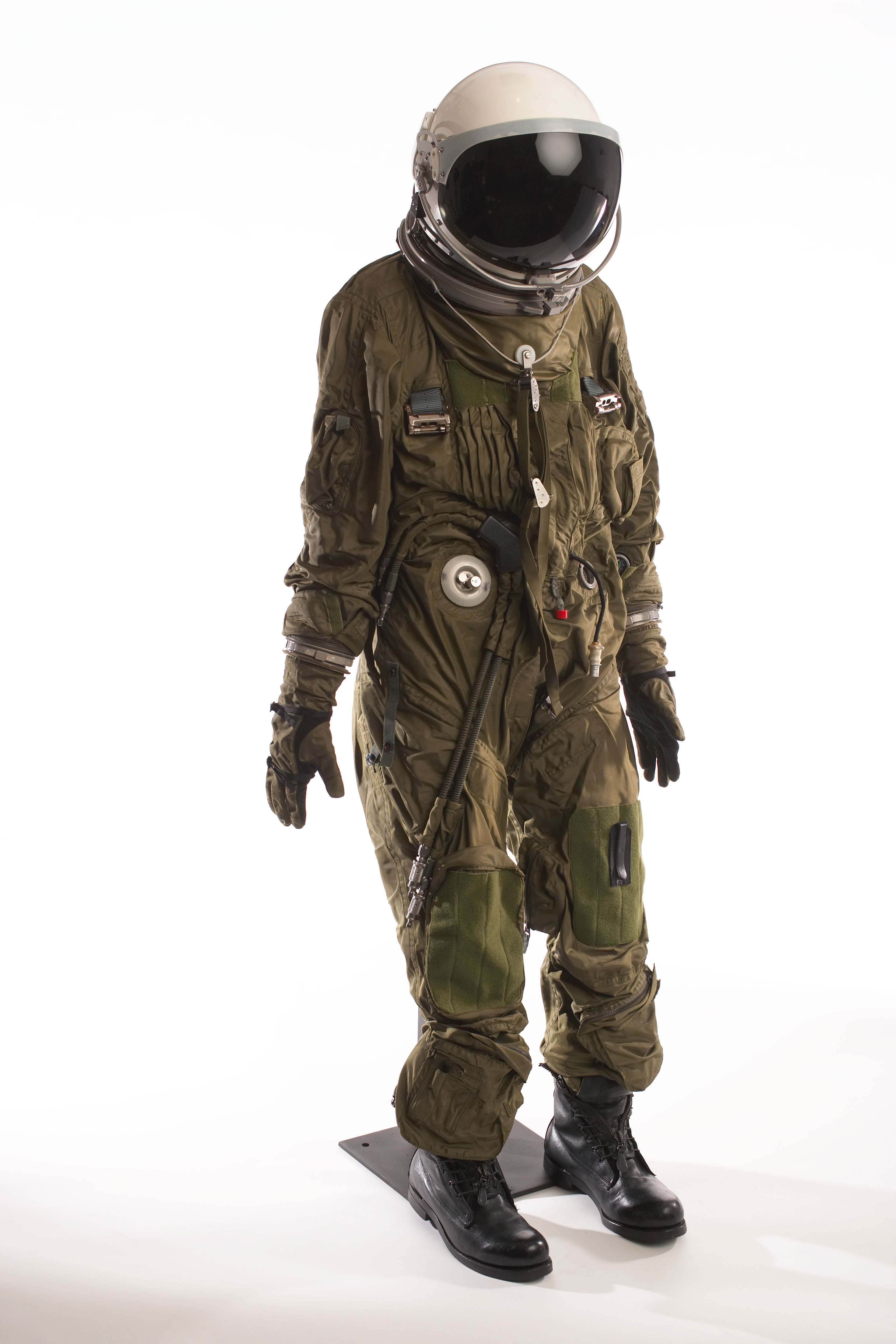 This is a S-1010 pressure suit for an U-2R plane. High-altitude pilots wear pressure suits as protection from cockpit depressurization. At altitudes above 63,000 feet without artificial air pressure, human blood and other fluids boil. In addition to preventing this, pressure suits also protect pilots from low temperatures at high altitudes. A coated-fabric face barrier inside this U-2 helmet divides the oxygen supply into two sections. One region covers the eyes, nose, mouth, and chin; the other compartment houses the rest of the head and is linked to the air in the interior of the suit.